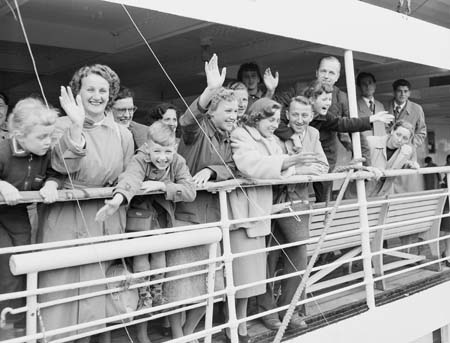 Migrant Arrivals in Australia - 50,000th Dutch migrant, arrives in Australia aboard the SIBAJAK. Right: Maria was up early on the day of arrival to scan the Port Melbourne for a first glimpse of her fiancé after a separation of nine months - ref Post war migrant arrivals